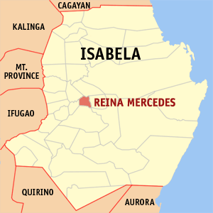 Map of Isabela showing the location of Reina Mercedes